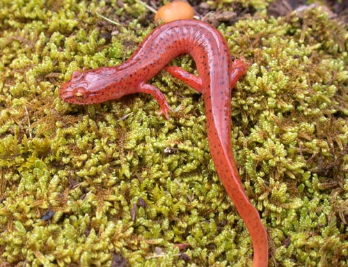 A spring salamander (Gyrinophilus porphyriticus) in Watauga County, North Carolina